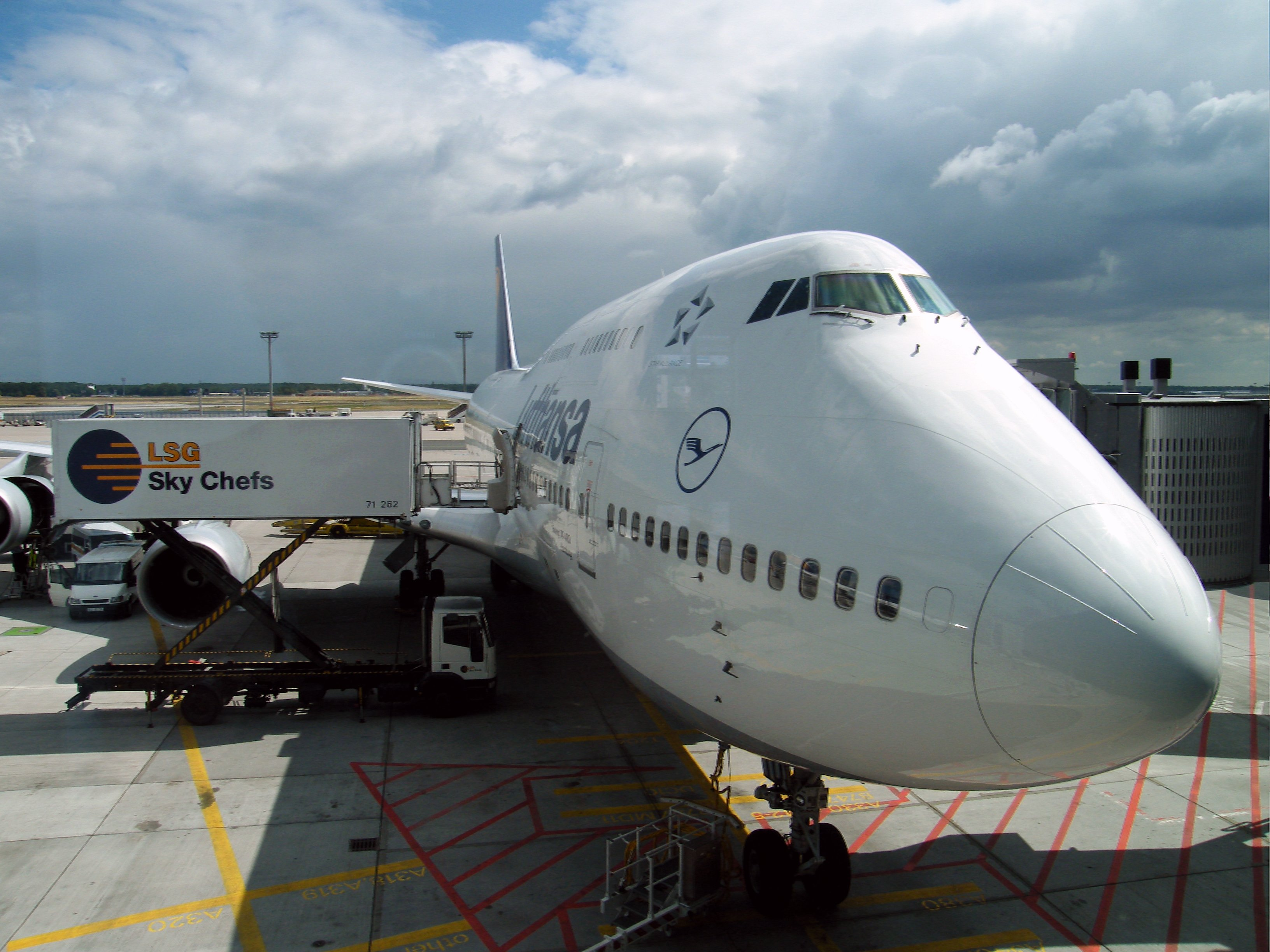 A 747 of Lufthansa scheduled to Shanghai is serviced by an LSG Sky Chefs truck at Frankfurt Airport